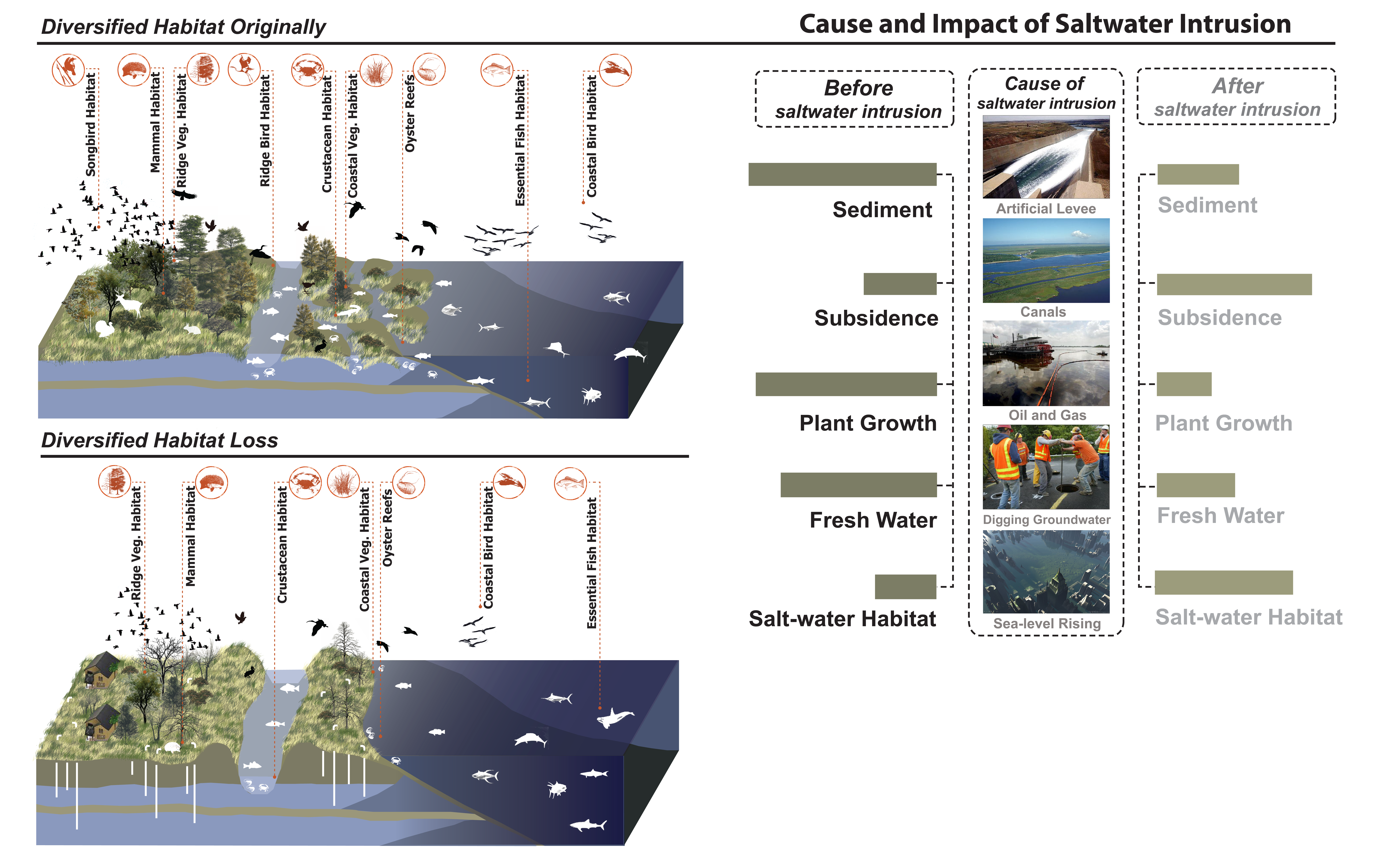 Saltwater intrusion is the movement of saline water into freshwater aquifers which results into diversified habitats loss and land subsidence. Most often, it is caused by ground water pumping from coastal wells, artificial levee, or from construction of navigation channels or oil field canals. The channels and canals provide conduits for salt water to be brought into fresh water marshes. But salt water intrusion can also occur as the result of a natural process like a storm surge from a hurricane or sea-level rising up.